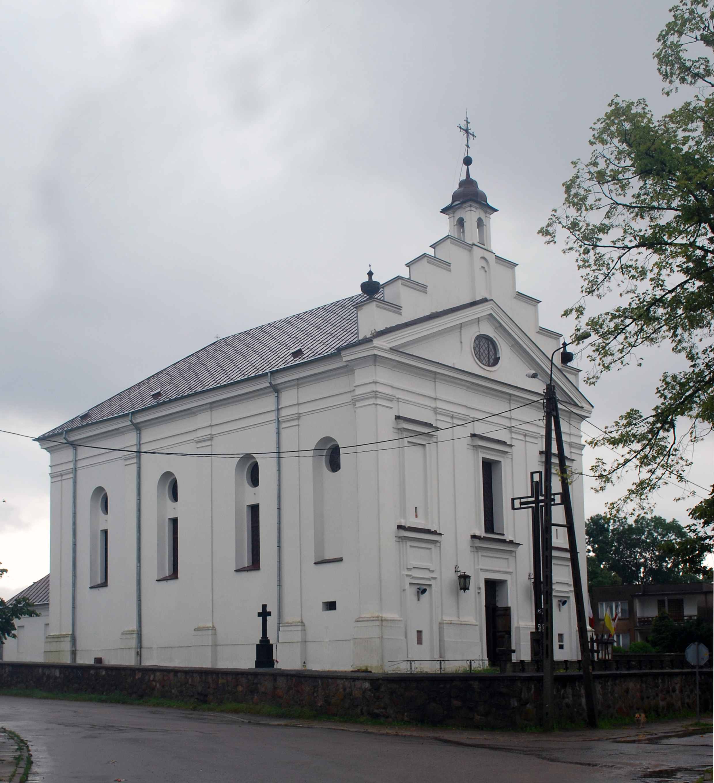 This photo from Podlaskie Voievodeship was taken during Polish Wikiexpedition 2009 set up by Wikimedia Polska Association. The making of this document was supported by Wikimedia Polska. Kościół w Sidrze.